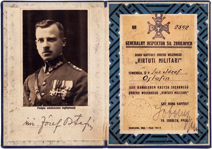 ID-Card of Virtuti Militari War Order of Józef Ostafin (1894-1947)